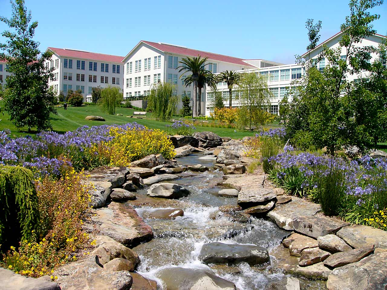 Letterman Digital Arts Center in Presidio of San Francisco